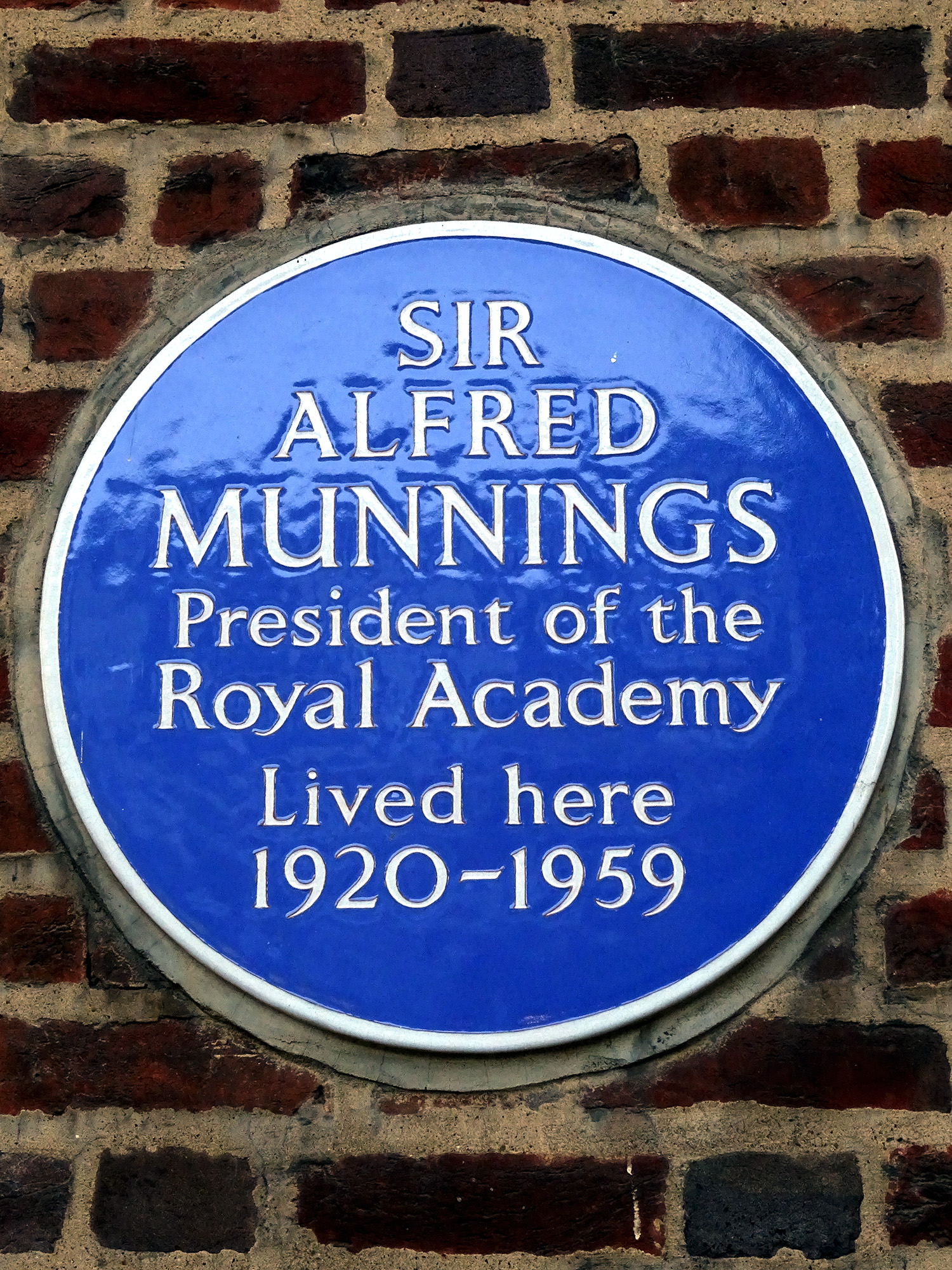 Blue plaque at 96 Chelsea Park Gardens, Chelsea, London SW3 6AE